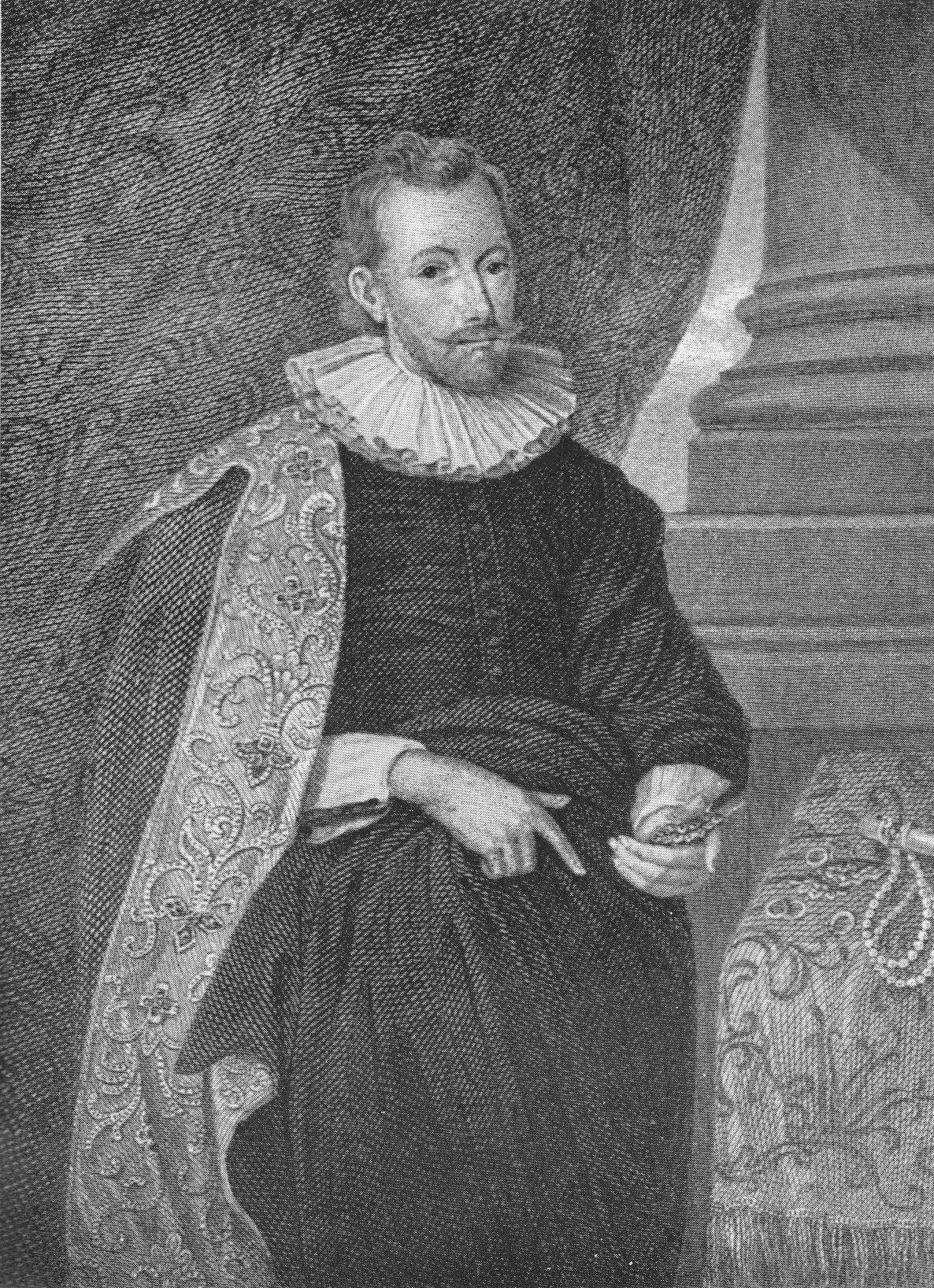 George Heriot, founder of Heriot's Hospital for the free education of "puir faitherless bairns" of deceased Edinburgh burgesses.